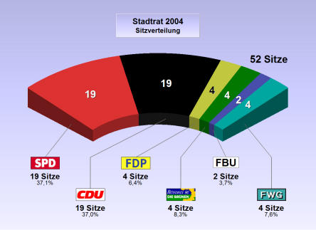 election apportionment diagram of city council of Kaiserslautern 2004